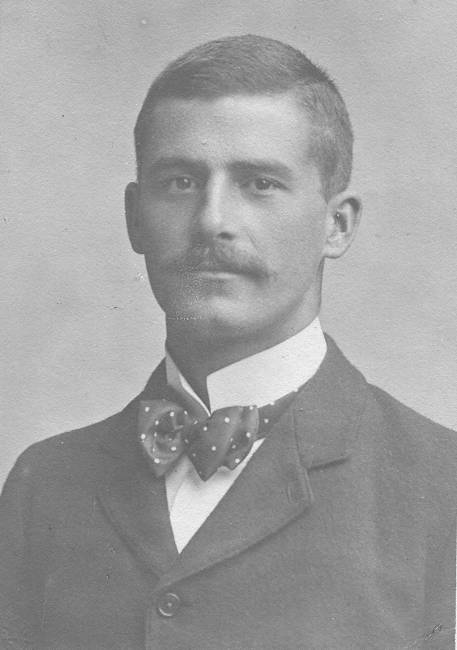 Photograoh of Brian Surtees Phillpotts as a young man.